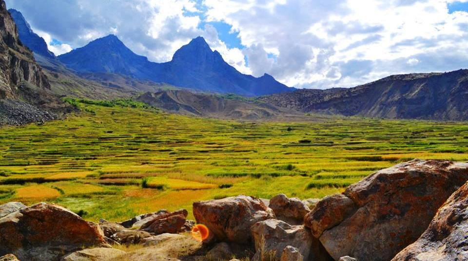 Marvellous view of Surmo Broq